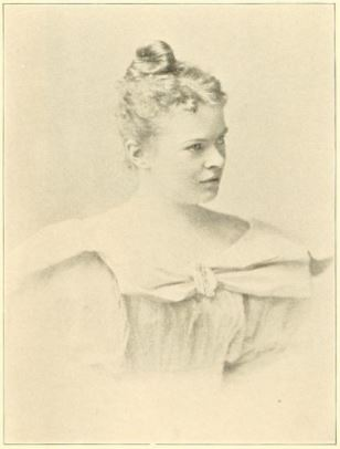 Mrs Dr Percy D. Hickling